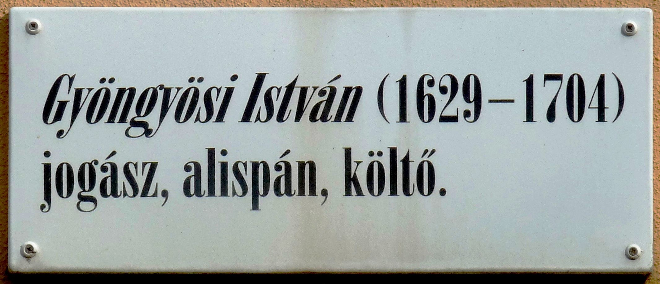 István Gyöngyösi (1629-1704) commemorative plaque in Budapest District XIII, Gyöngyösi Alley No 1.